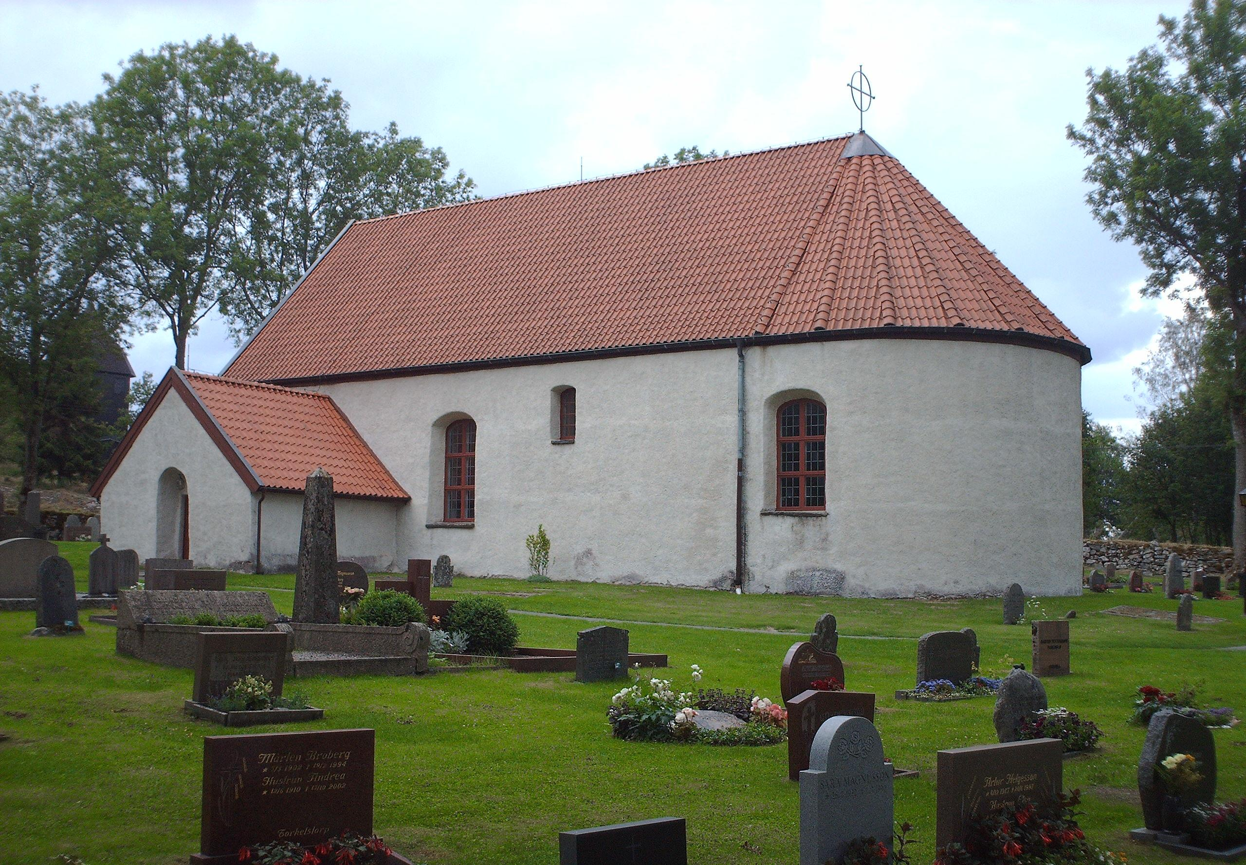 Hanhals Church, Sweden.